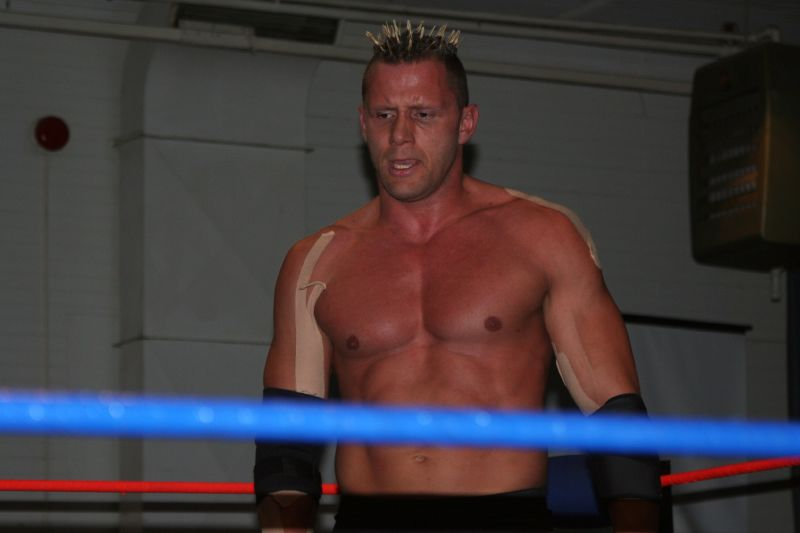 Professional wrestler Nigel McGuinness at a 2CW show on April 11, 2009